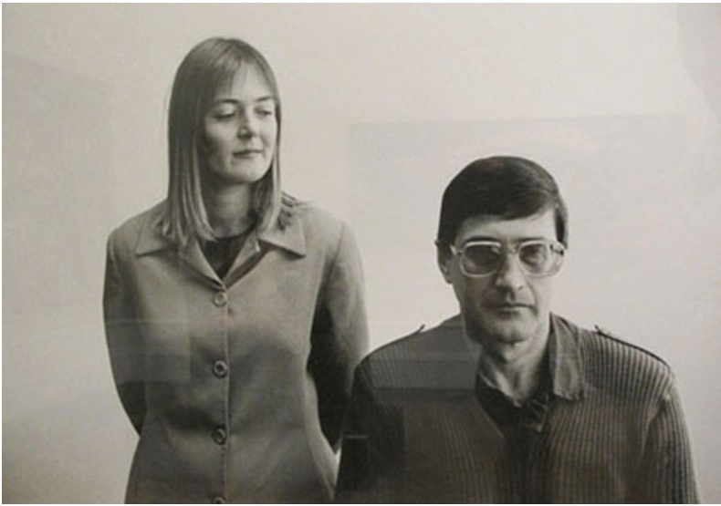 Jann Turner with Eugene de Kock, TRC Headquarters, 1997